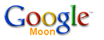 Google Moon logo